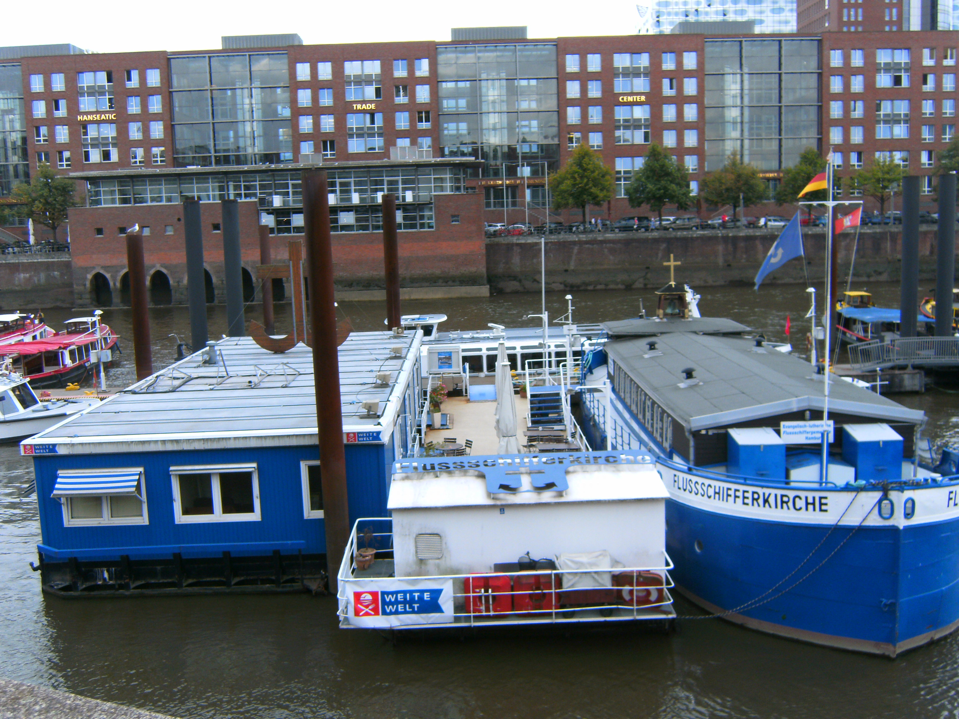 Hamburg, Germany, Binnenhafen (historical port): Flussschifferkirche (floating church) view from street Kajen.